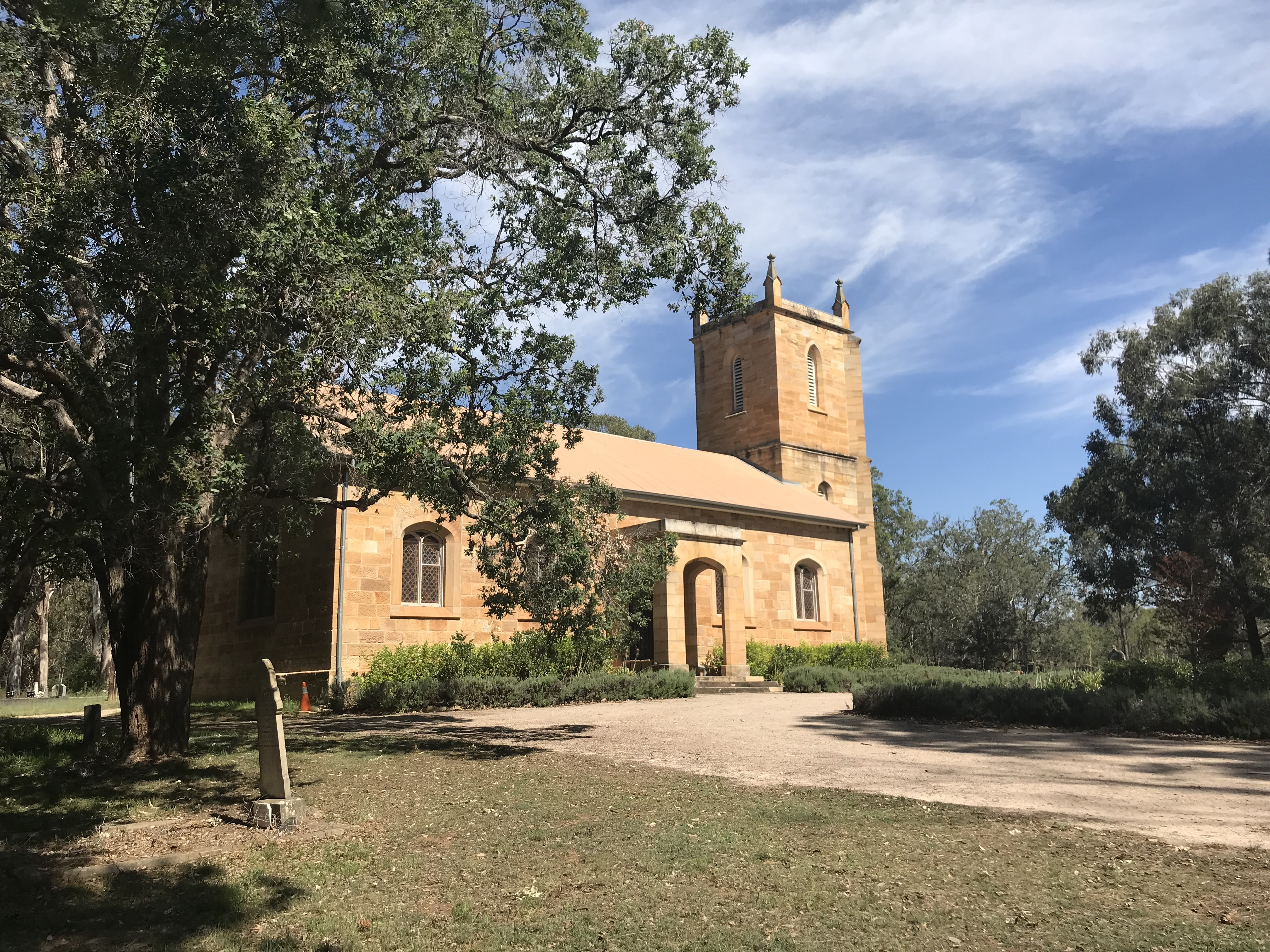 south westerly view of church building